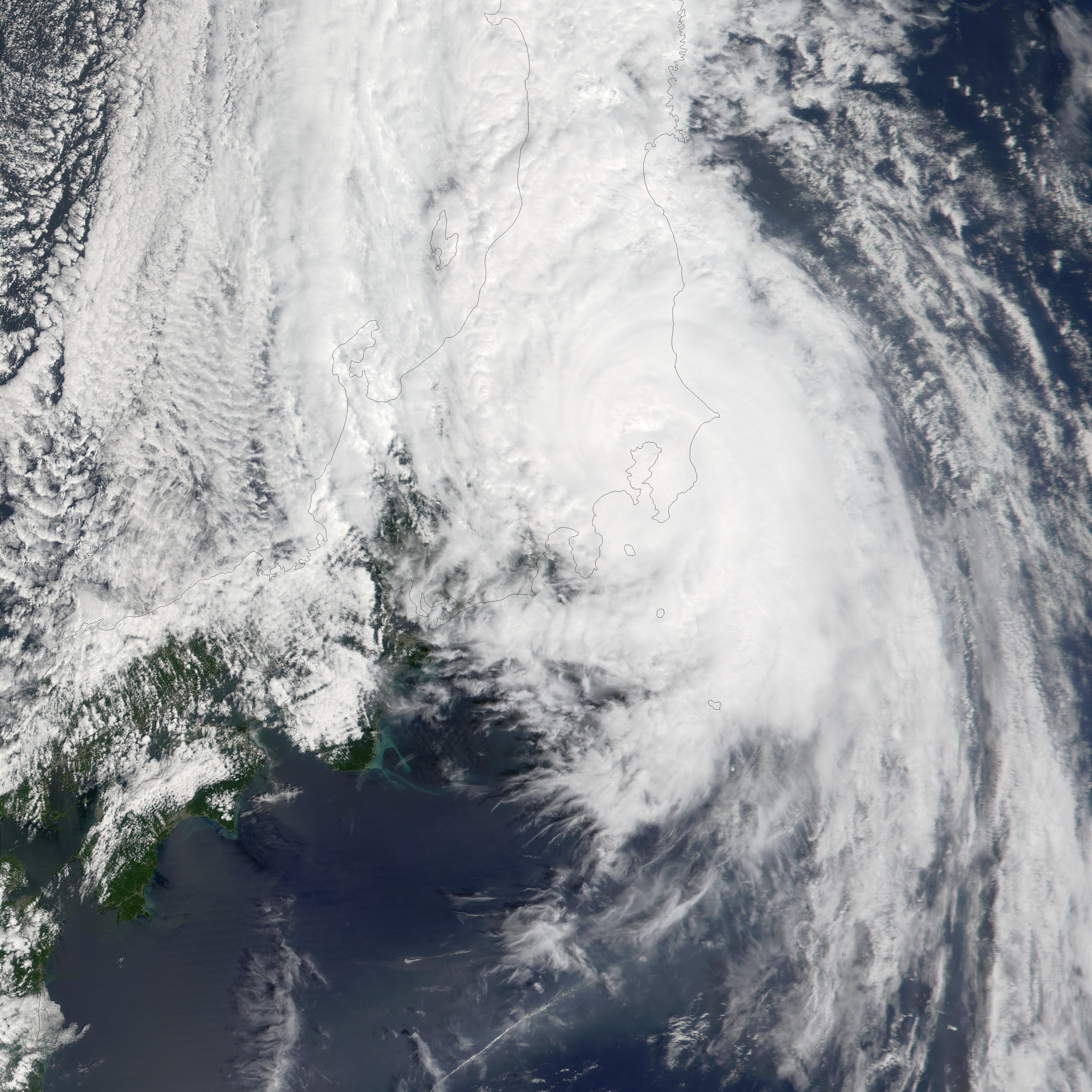 Typhoon Danas positions itself over Japan in this true-color image acquired by MODIS on September 11, 2001. Danas was downgraded to a tropical storm as it reached Tokyo, but was still powerful enough to wreak havoc throughout the country. The storm triggered mudslides that killed four people, and high winds that claimed another life. In addition 350,000 homes were left without power, nearly 150 domestic flights were cancelled, and 55 of Japan's famous bullet trains were also forced to remain stationary.